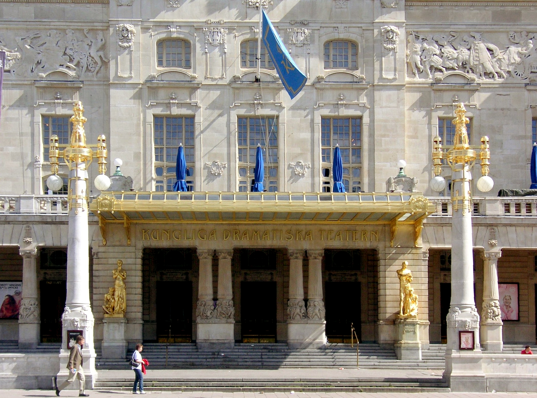 Entrence to the Royal Dramatic Theatre in Stockholm